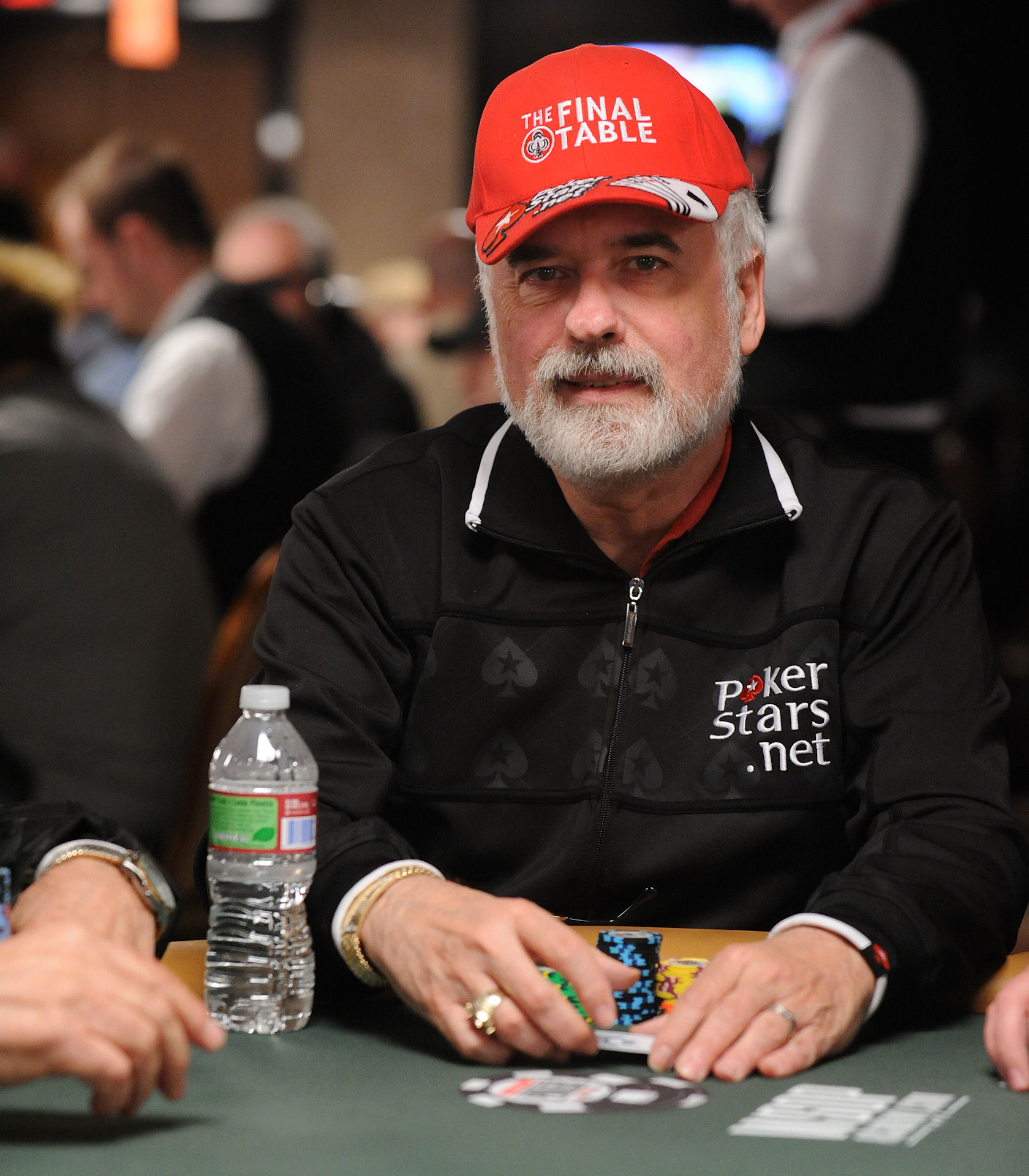 Tom McEvoy 1983 WSOP Main Event Champion, at the 2010 WSOP